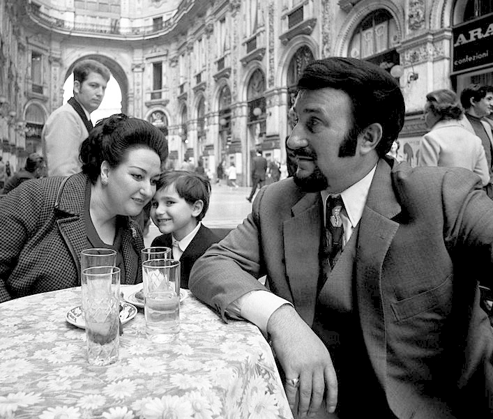 The Spanish soprano Montserrat Caballé, with her husband the Spanish tenor Bernabé Marti and her son Bernabé II, sitting at a bar table in Galleria Vittorio Emanuele II. Milan, 1971